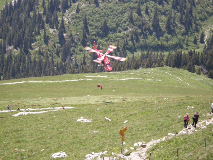 Rega, the Swiss Air Rescue Guard, during a rescue activity just south of Stockhorn mountain. The injured person can be seen sitting at the left border of the image. The data of the photo is not to be trusted. It's either August 2011, or July 2011.